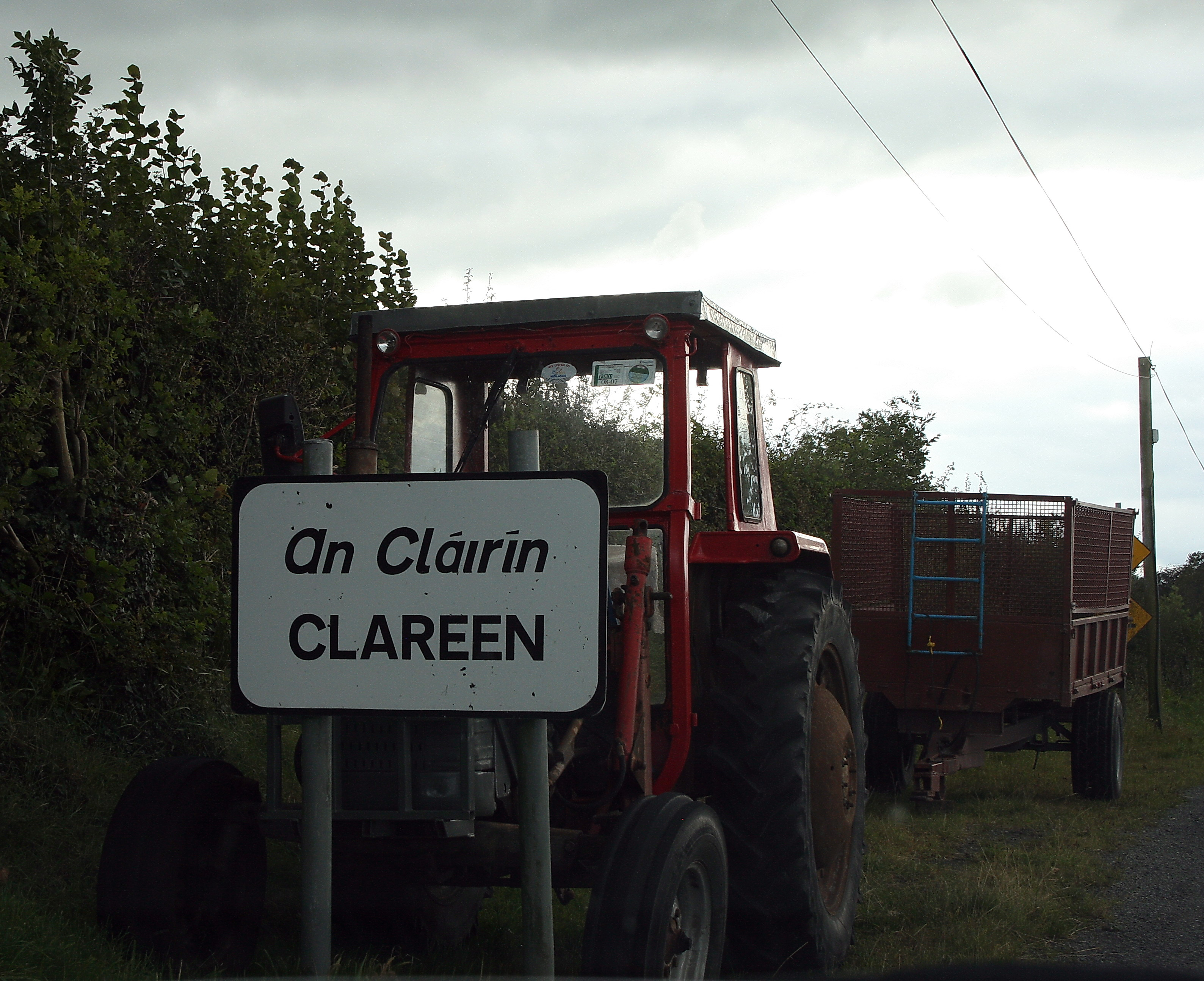 Clareen, County Offaly, near to Clareen and Breaghmore, Offaly, Ireland. On the R421 at the western edge of the Slieve Blooms.